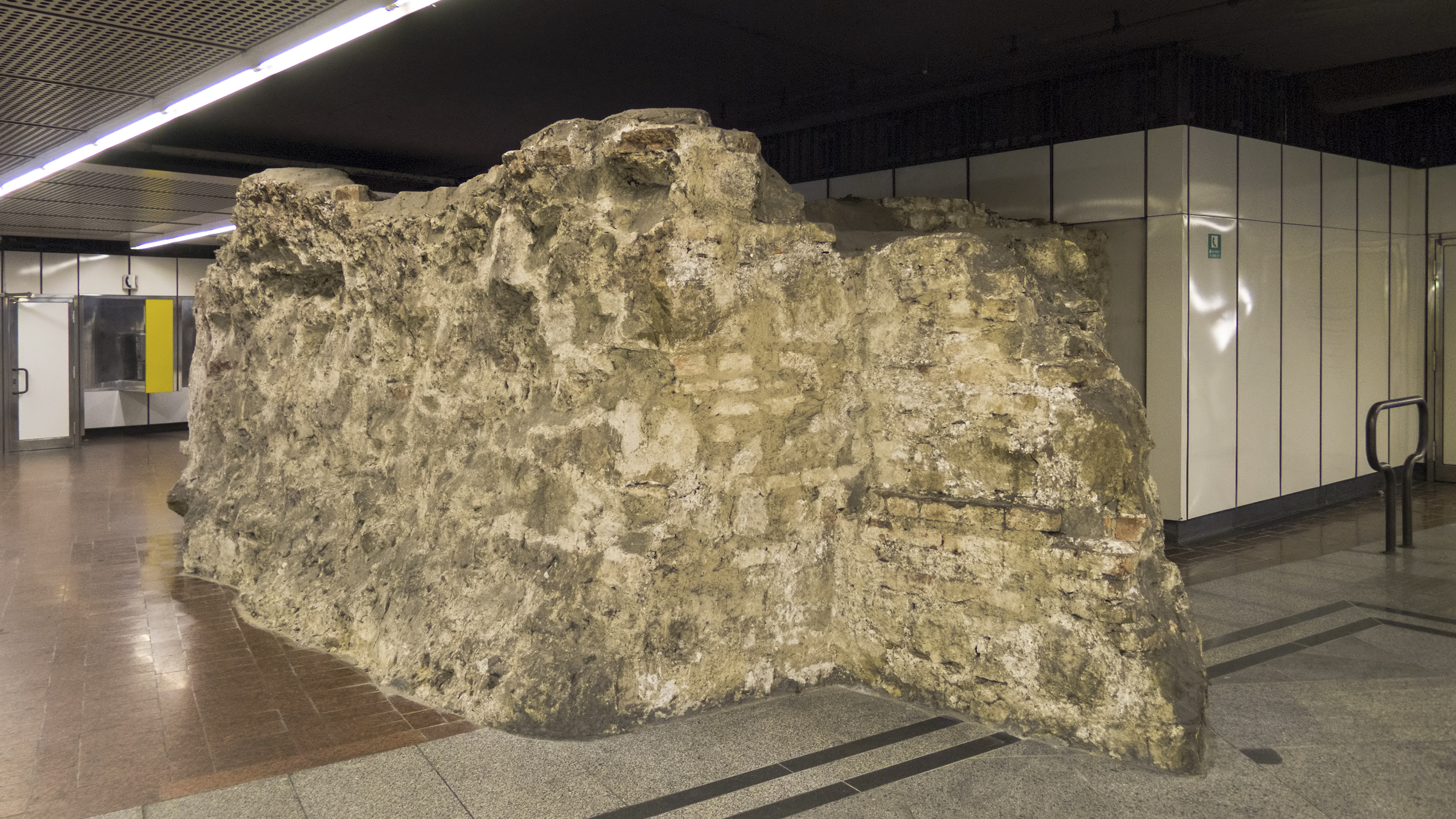 Underground station U-Bahn-Station Stubentor in Vienna